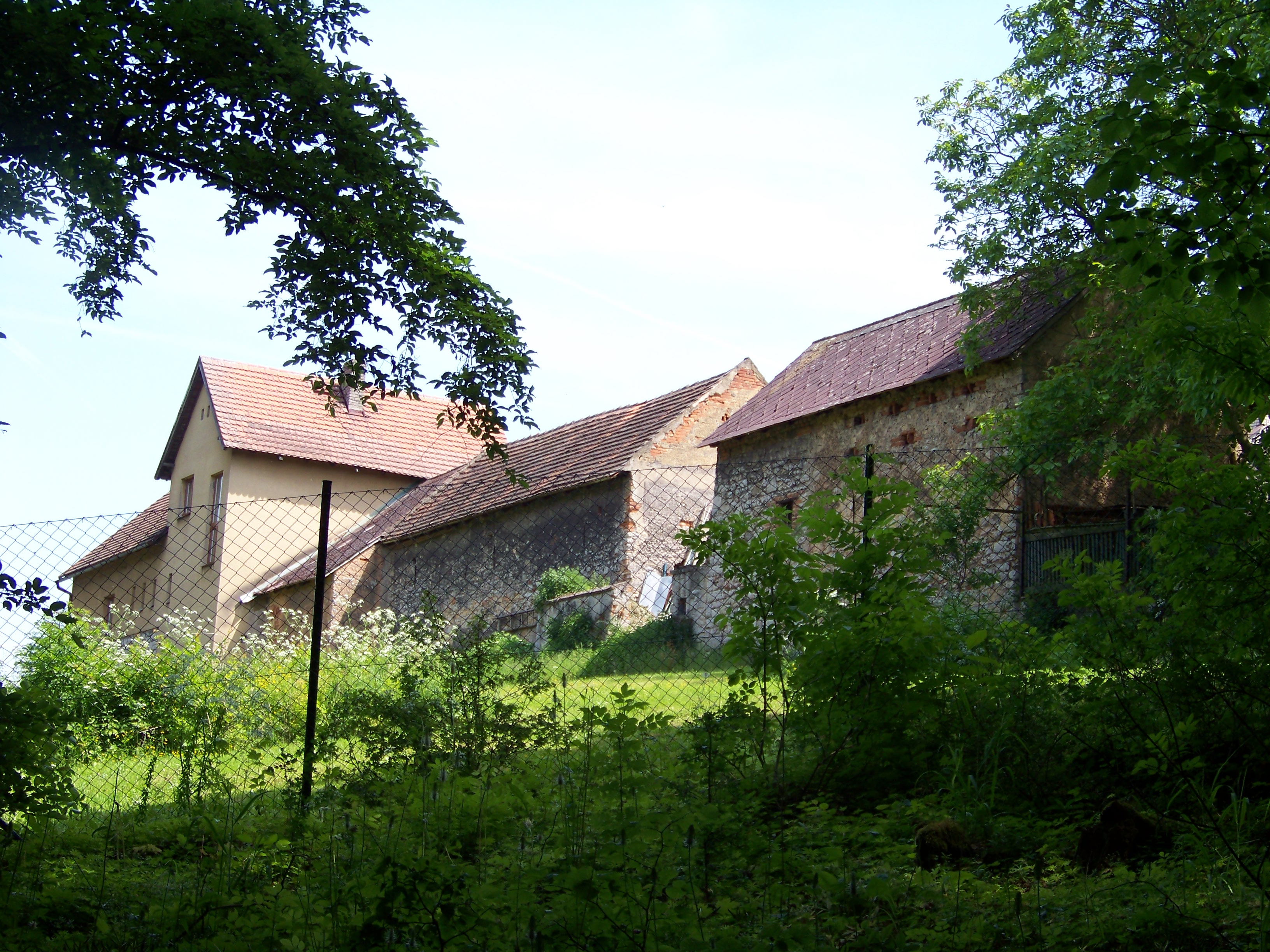 Bubovice, Beroun District, Central Bohemian Region, the Czech Republic.